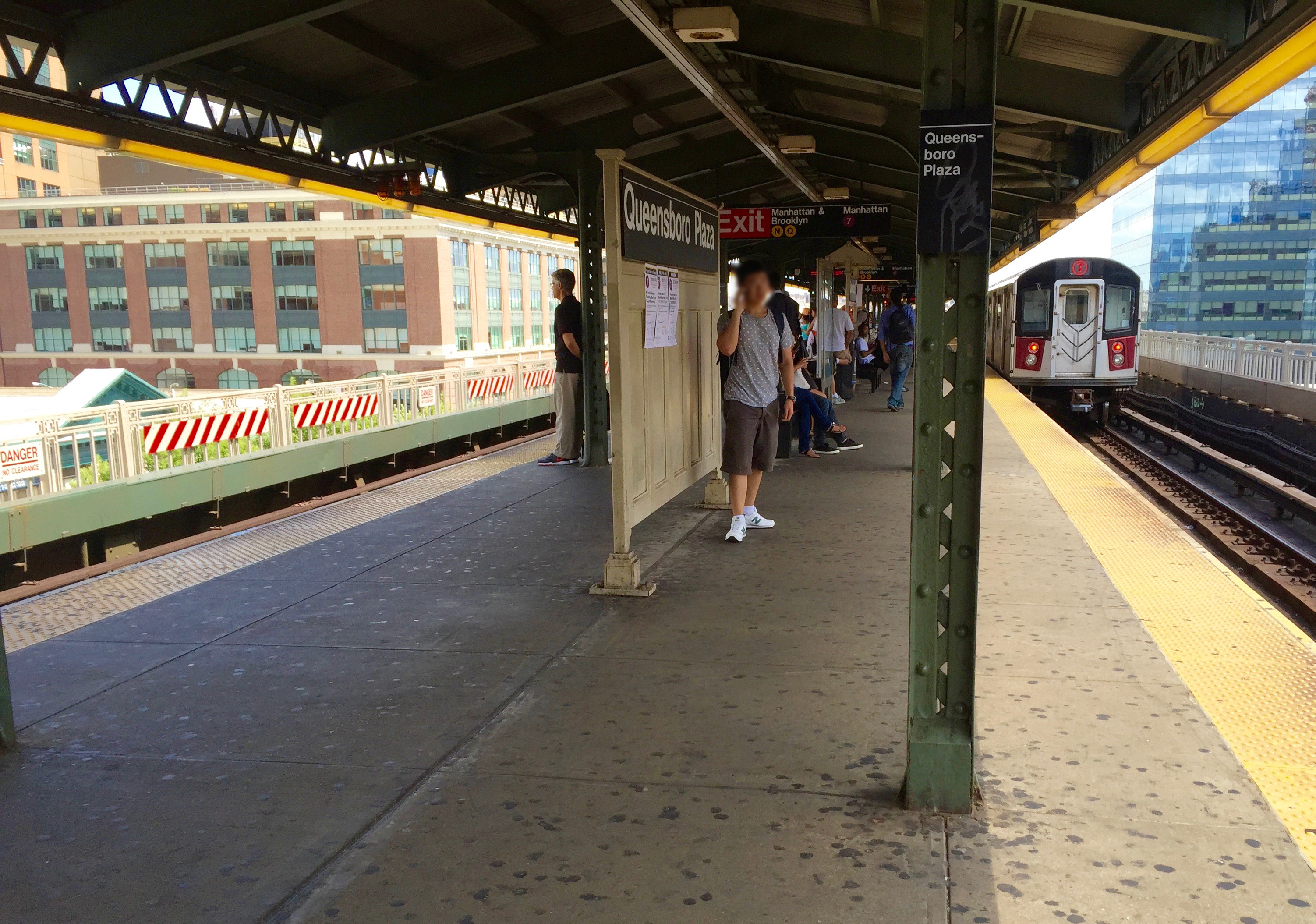 Upper level platform at Queensboro Plaza on the 7/N/W